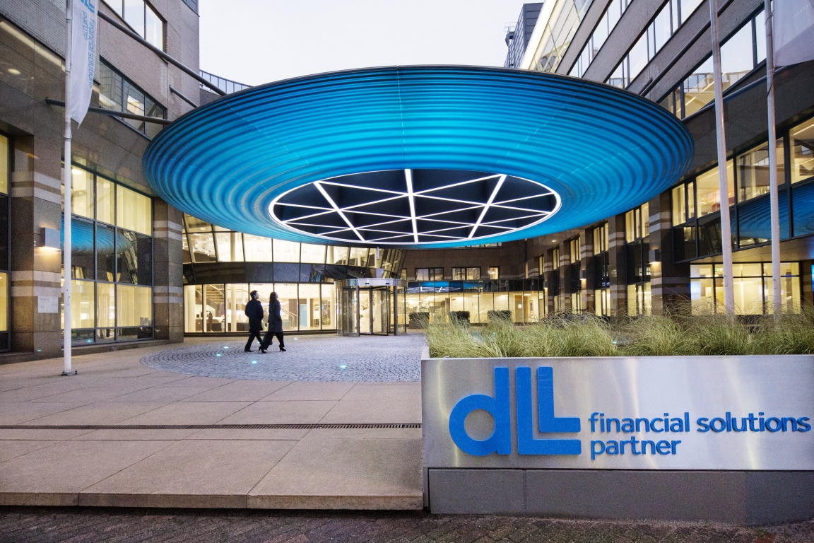 DLL headquarters office Eindhoven, the Netherlands